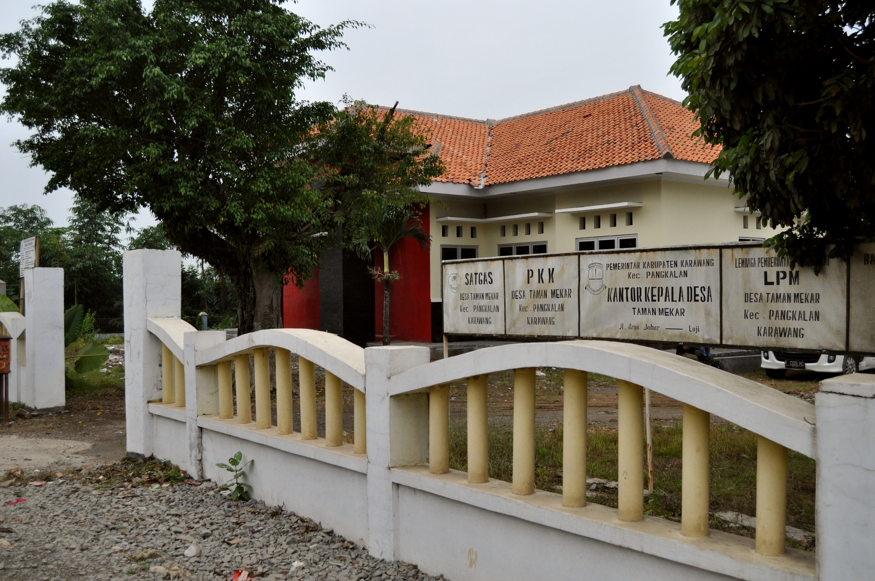 Tamanmekar Village Office, Karawang, West Java.